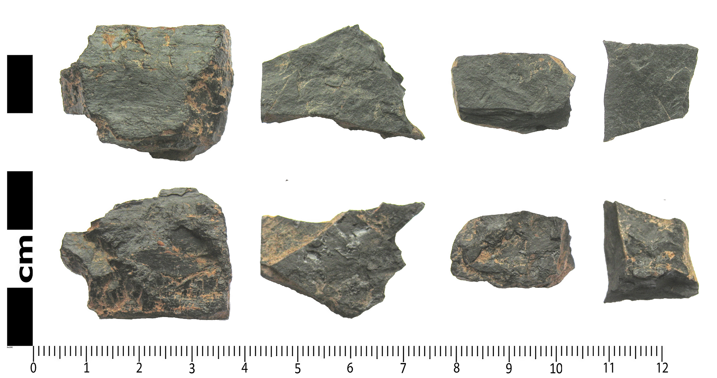 Possibly jet or pitch stone dating from the Neolithic or Bronze Age, that is c. 3500BC-800BC. Large fragment weighs 4g, the smallers ones 2g and 1g respectively.